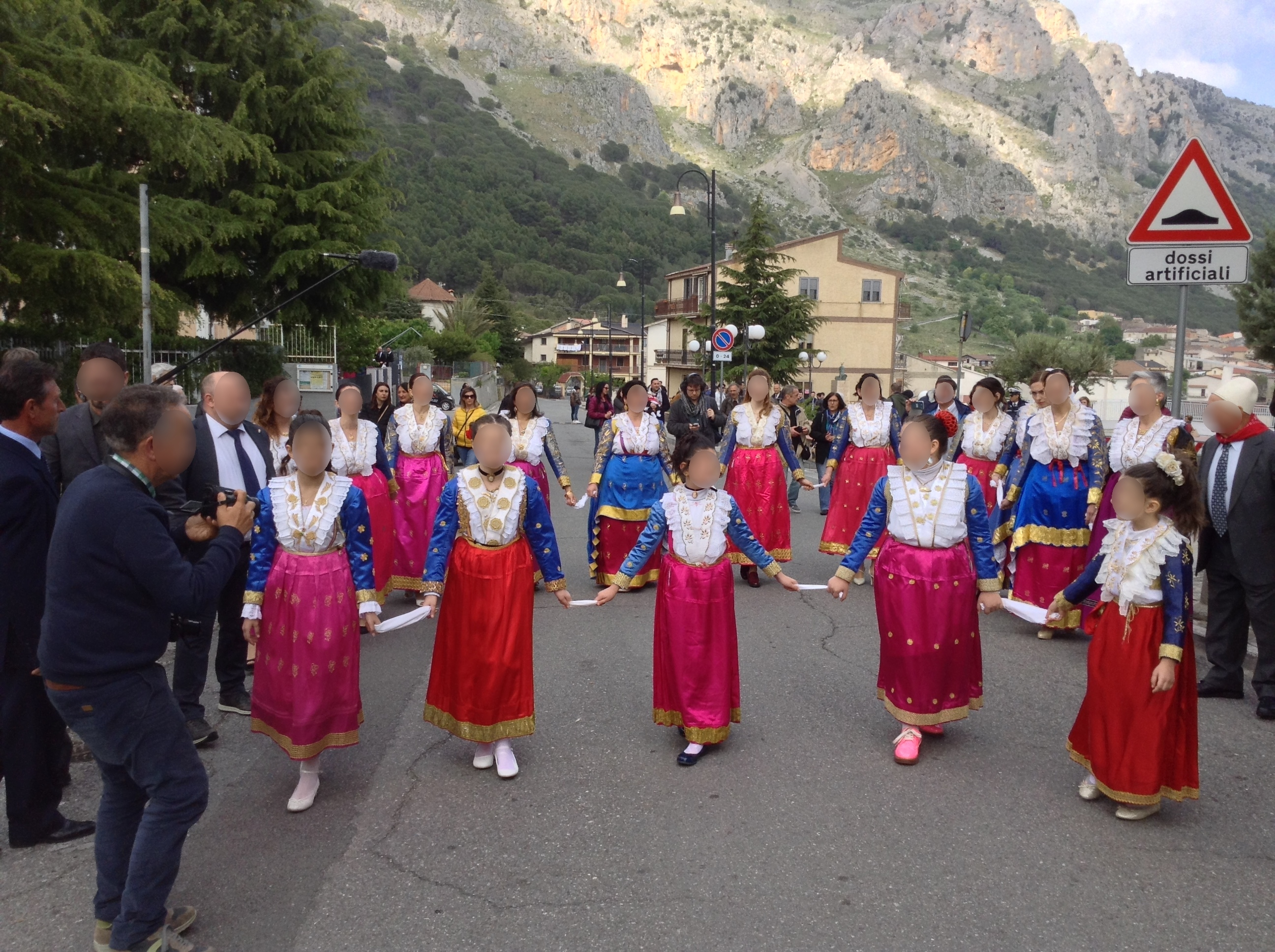 Arbëreshë costume of Frascineto, Calabria